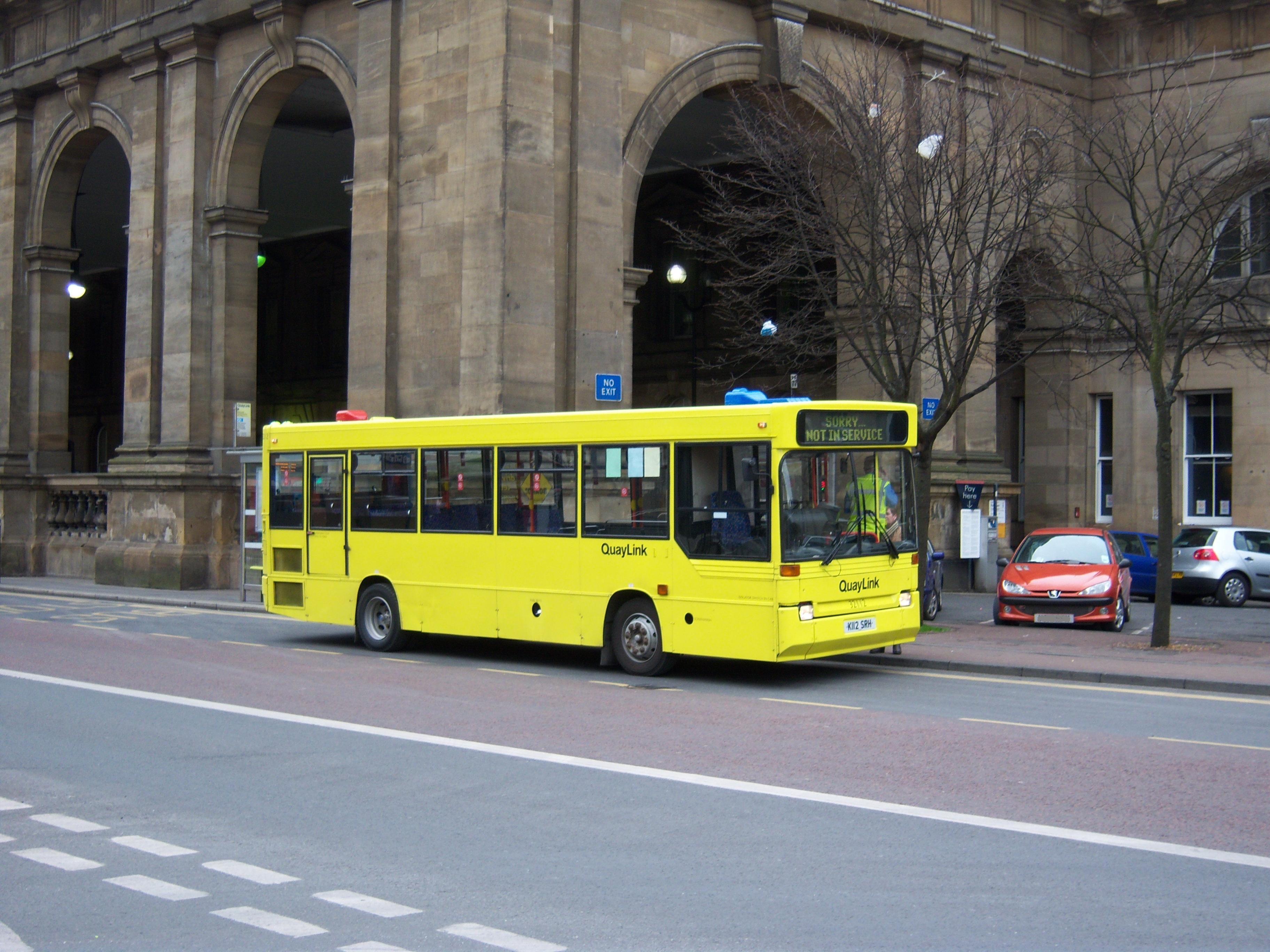 Stagecoach North East's 32112 (K112 SRH), a Plaxton Pointer bodied Dennis Dart midibus in Newcastle upon Tyne, England, painted in the colours of the hybrid bus scheme Quaylink, although this bus is only one of several relief vehicles used as spares for regular buses that operate the two Quaylink routes linking Newcastle and Gateshaed to the Quayside. Despite the similar colour, this elderly diesel powered bus is in marked contrast to the hybrid gas-turbine/electric Designline vehicles normally used, in both shape, and by virtue of being around 12 years older than the Designline hybrids. This bus was part of a batch built in 1993. After a brief spell as a demonstrator with Blackpool Transport, it joined the rest of its batch at London Buses Ltd as part of their DRL series, and was put to work in North Street Garage in East London. On privatisation of London Buses it became part of Stagecoach Group's London bus fleet. It stayed in London until 2001 when it was transferred to Stagecoach Busways as No. 1300 (later to become Stagecoach North East No. 32112), where it served in standard corporate colours (likely both the earier, and definitely the latter versions) before its repainting in 2008 into the Quaylink colours, along with sister bus No. 32134 (K134 SRH). That particular bus has a non-standard rear end due to damage sustained after being stolen in London for a ram raid robbery. Reports also suggest that 32121 (K121 SRH) is in use for Quaylink spare duties.